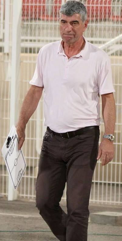 Branko Smiljanić as the head Coach of Saham SC. Before a match against Fanja SC. 12 December 2014 Sohar Sports Complex Photographer email id